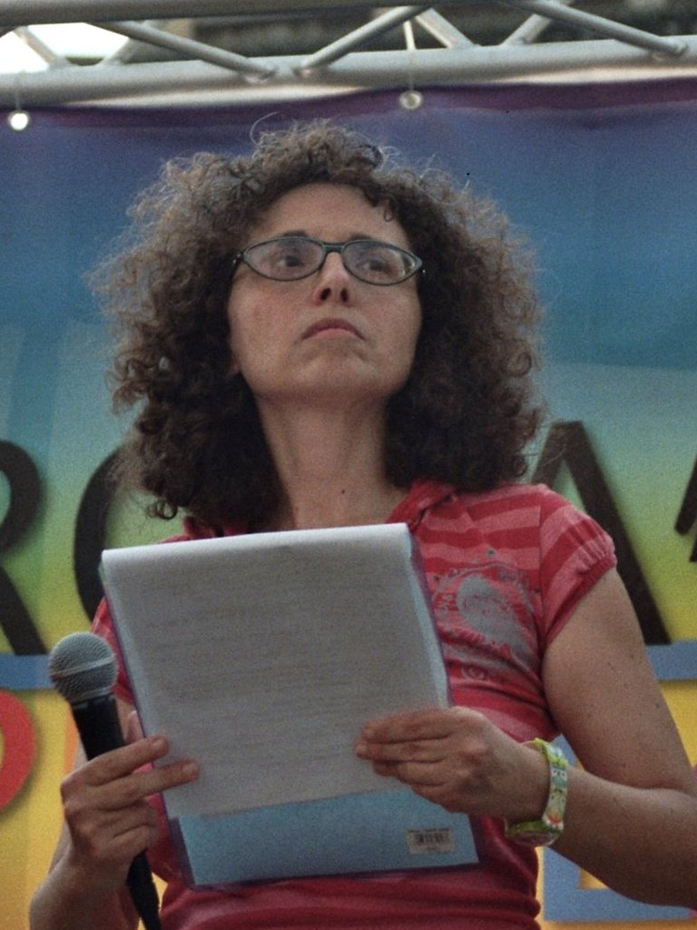 Italian LGBTQ activist Delia Vaccarello at the 2010 Gay Pride in Rome